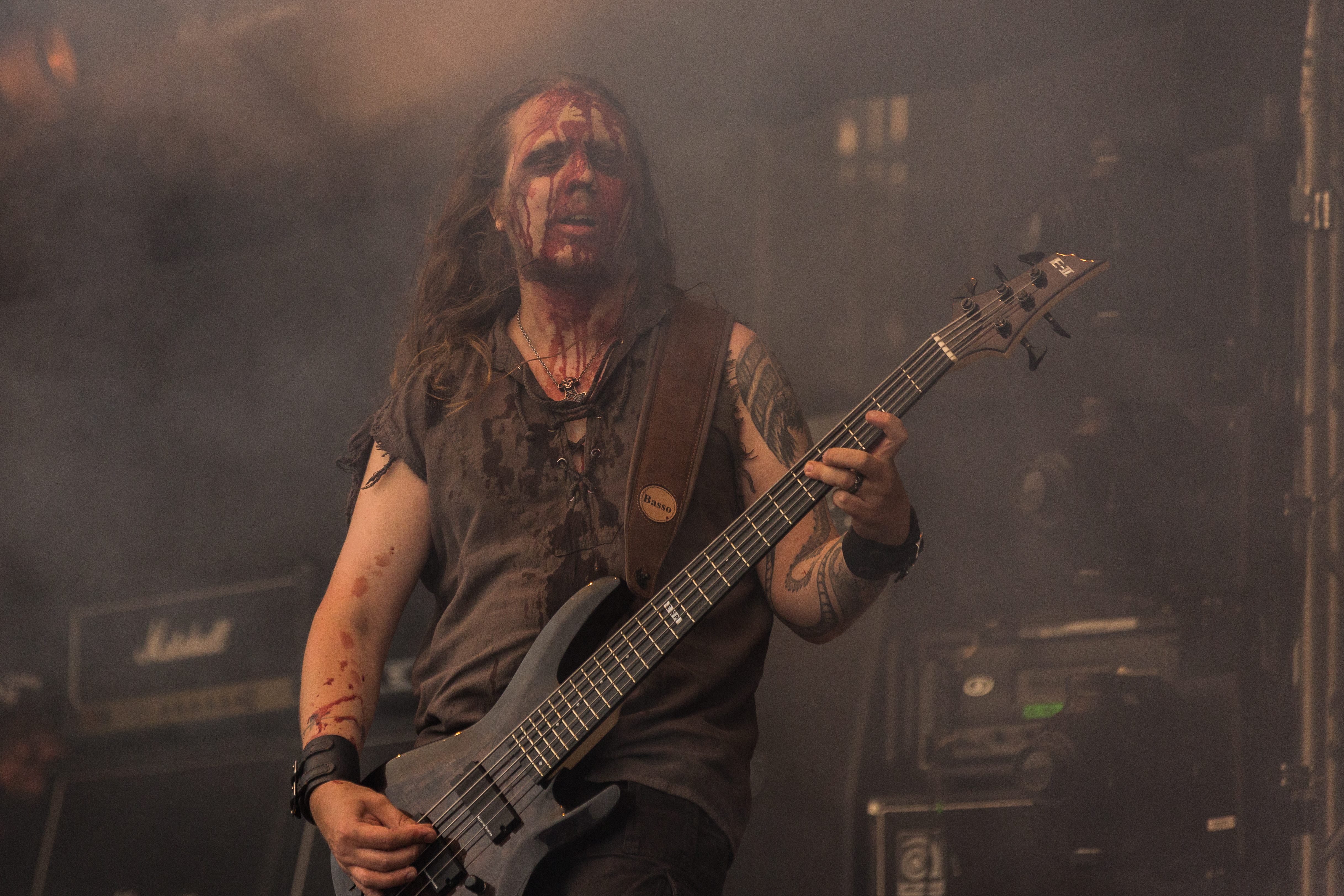 The Finnish pagan black metal band Moonsorrow at the Party.San Metal Open Air 2017 in Obermehler-Schlotheim/Germany.